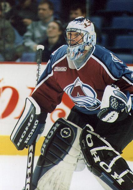 Ice hockey player Patrick Roy